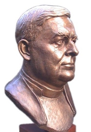 Sculpted by Victor Heyfron M.A. 1999